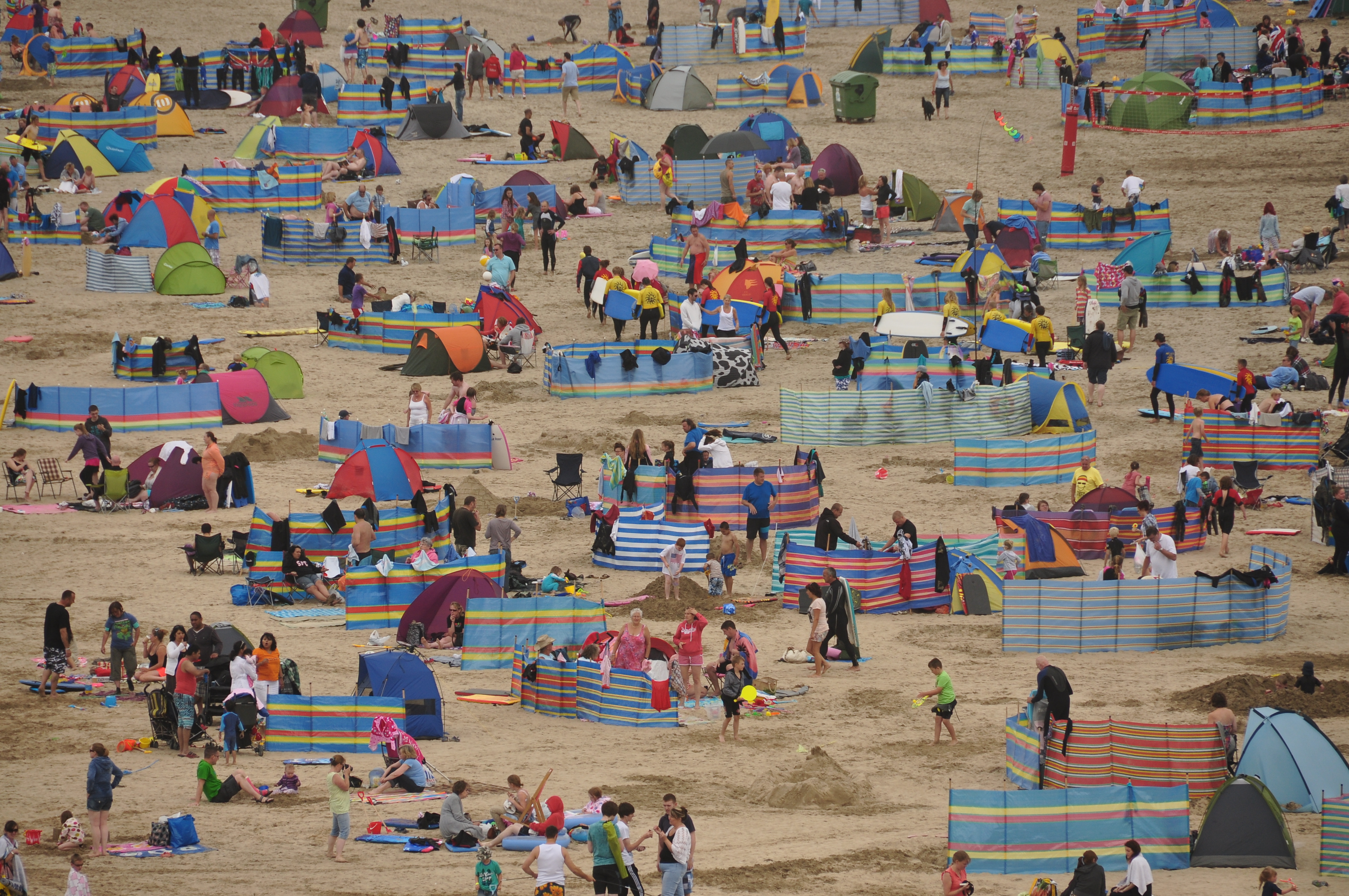 Perran Sands